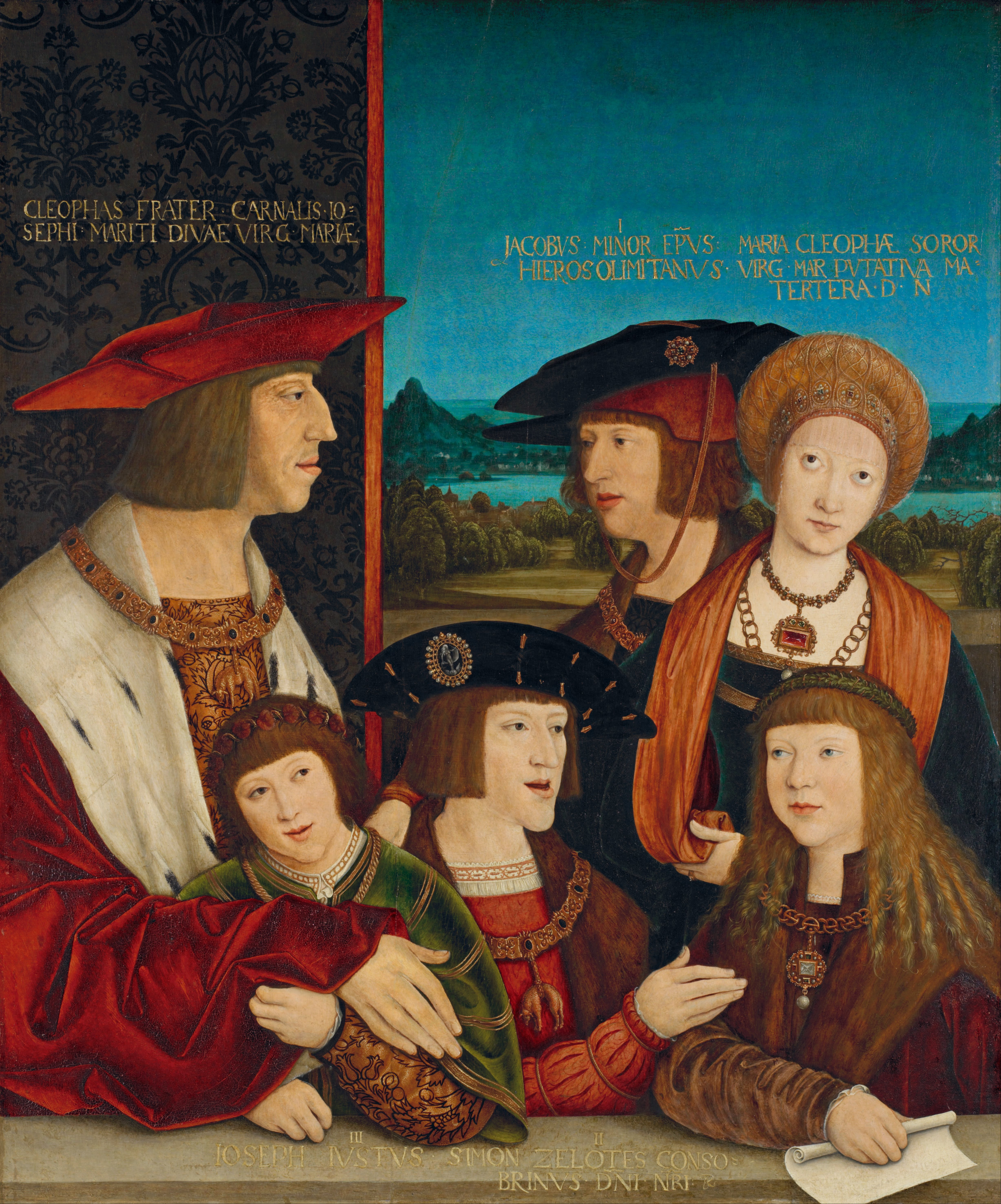 Emperor Maximilian I with his son Philip the Fair, his wife Mary of Burgundy, his grandsons Charles V and Ferdinand I, and his granddaughter Mary of Austria).